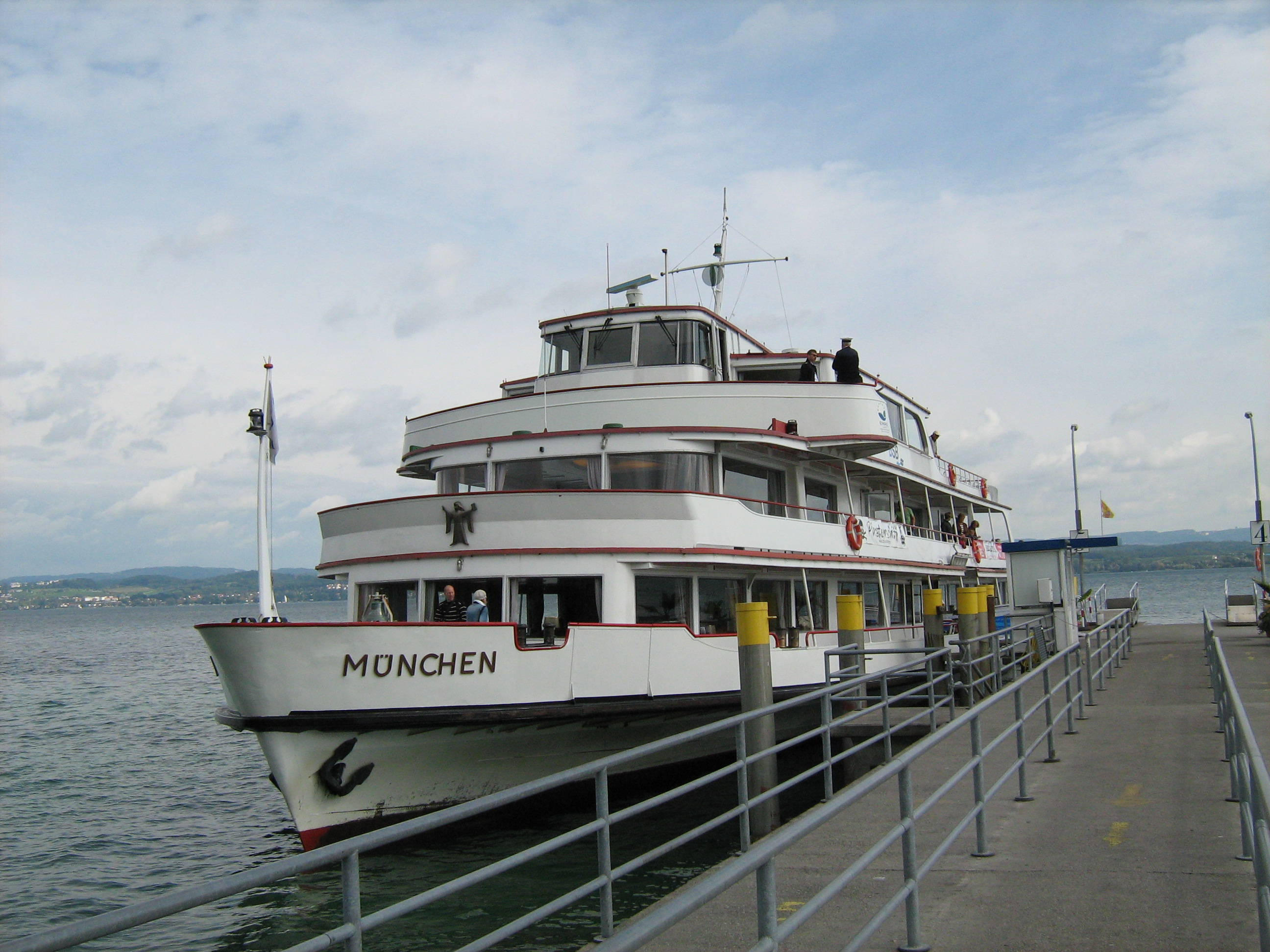 MS München on Lake Constance